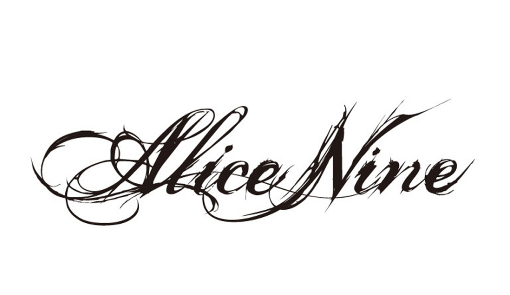 Band's logo.